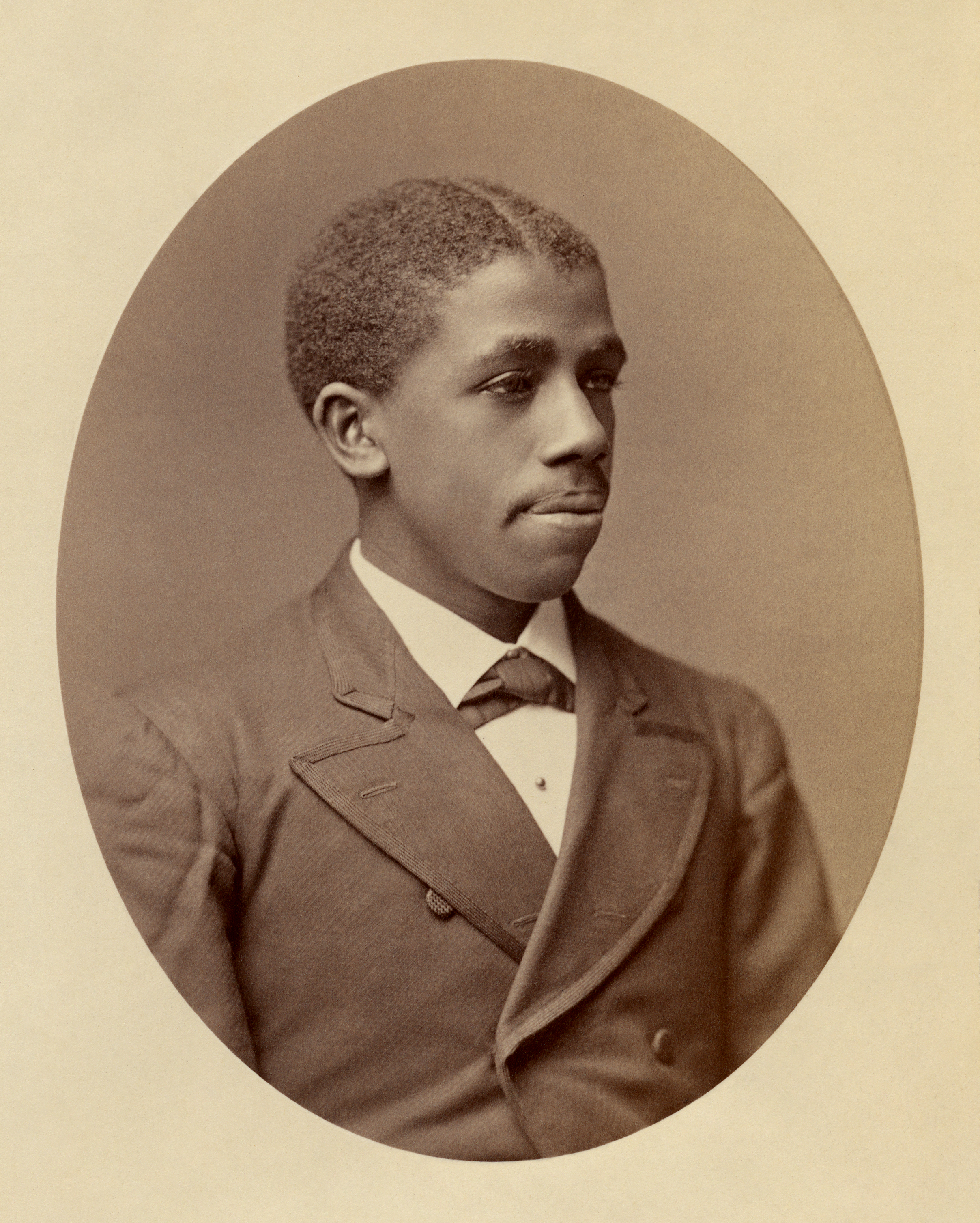 Portrait of Edward Alexander Bouchet, Yale College class of 1874, the first African-American to graduate from Yale College. Courtesy of the Yale University Manuscripts & Archives Digital Images Database. Retouched by MarmadukePercy.